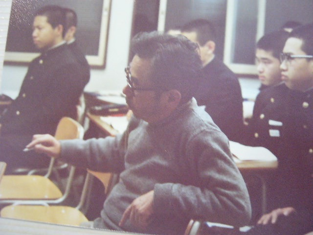 Mr.Ilie, a great teacher in Japanese tutoring school, taught to students.